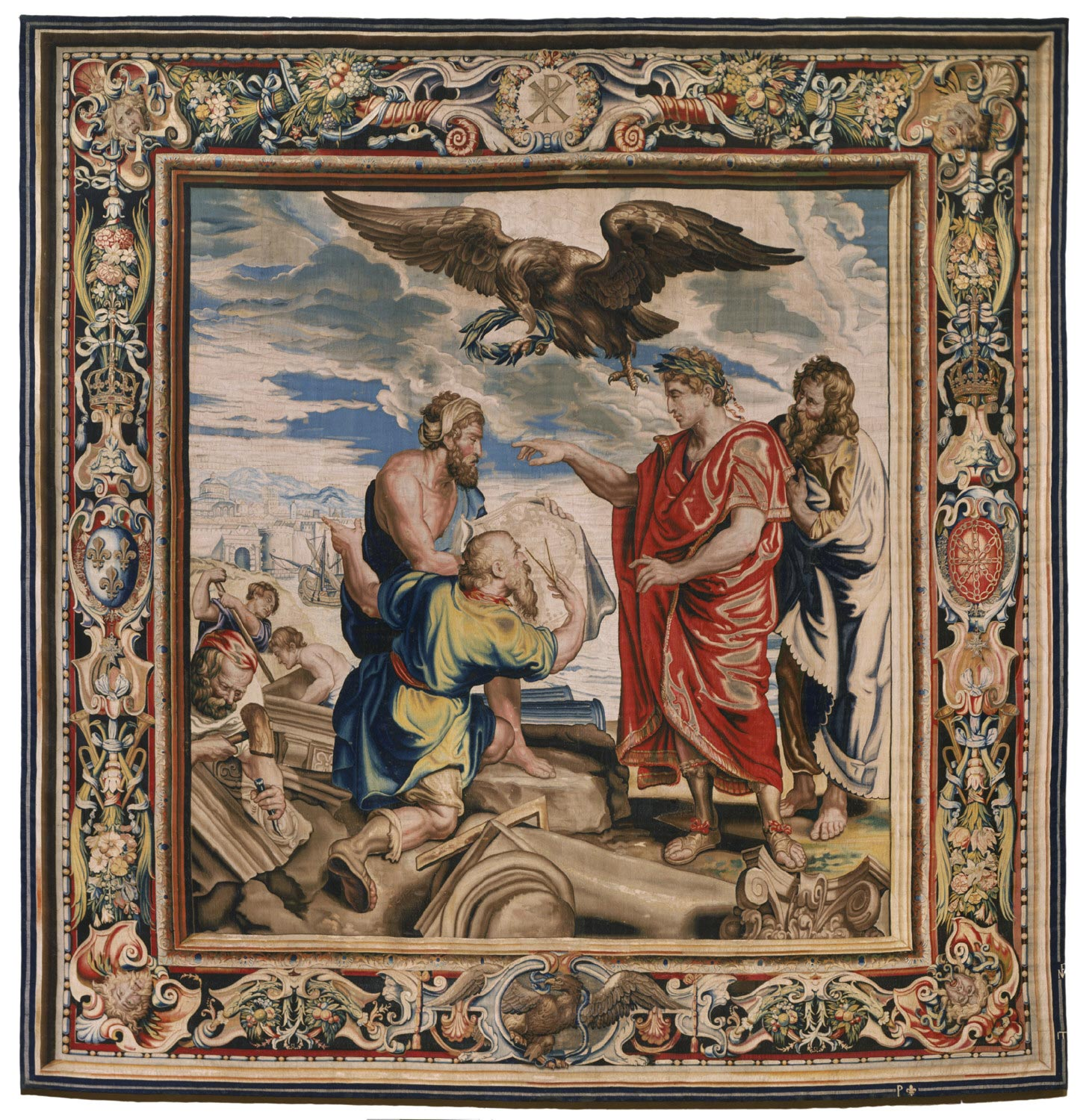 Constantine Directing the Building of Constantinople(title used by the museum) or The Foundation of Constantinople. Tapestry (wool and silk with gold and silver threads) featuring Constantine from the series "The History of Constantine the Great". Philadelphia Museum of Art, United States. Great Stair Hall Balcony, second floor. ID 1959-78-7.